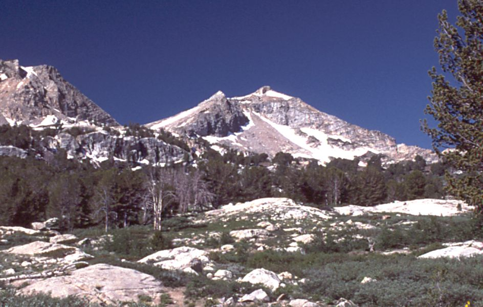 Liberty Peak, in the Ruby Mountains of Nevada, looking south from the Road's End Trailhead.